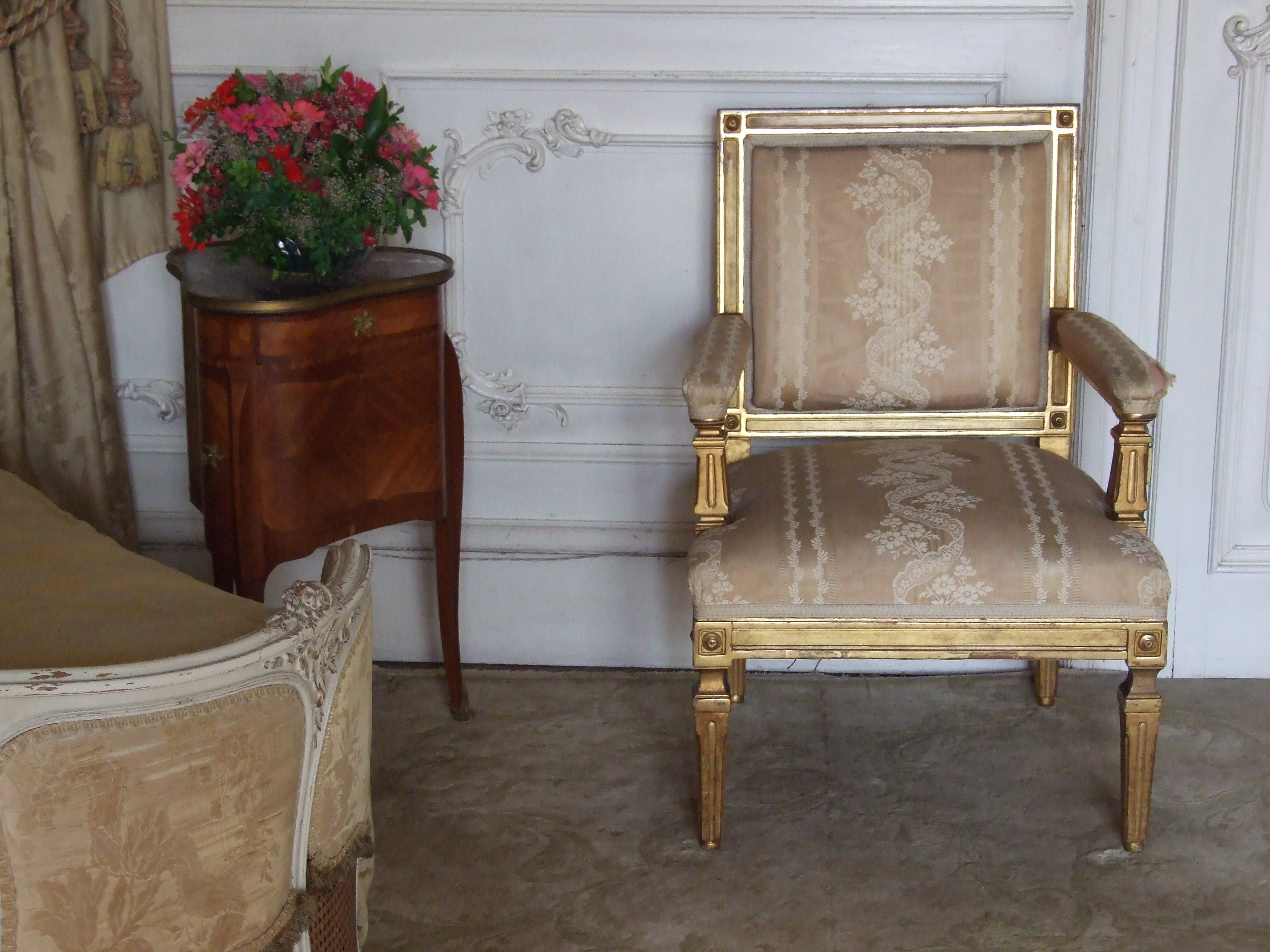 Opočno castle